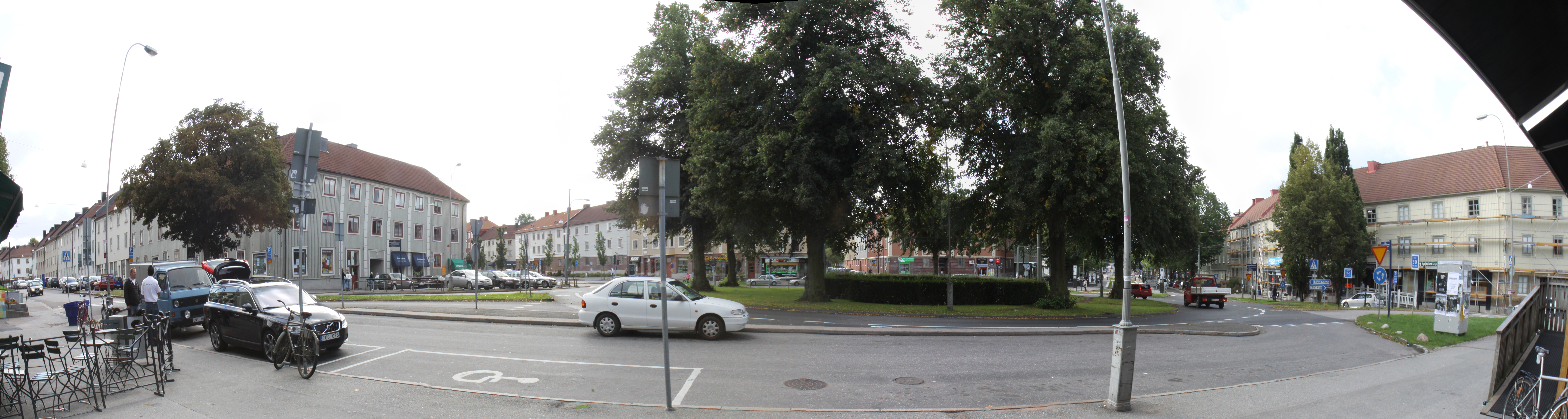 A panorama of Mariaplan in Gothenburg